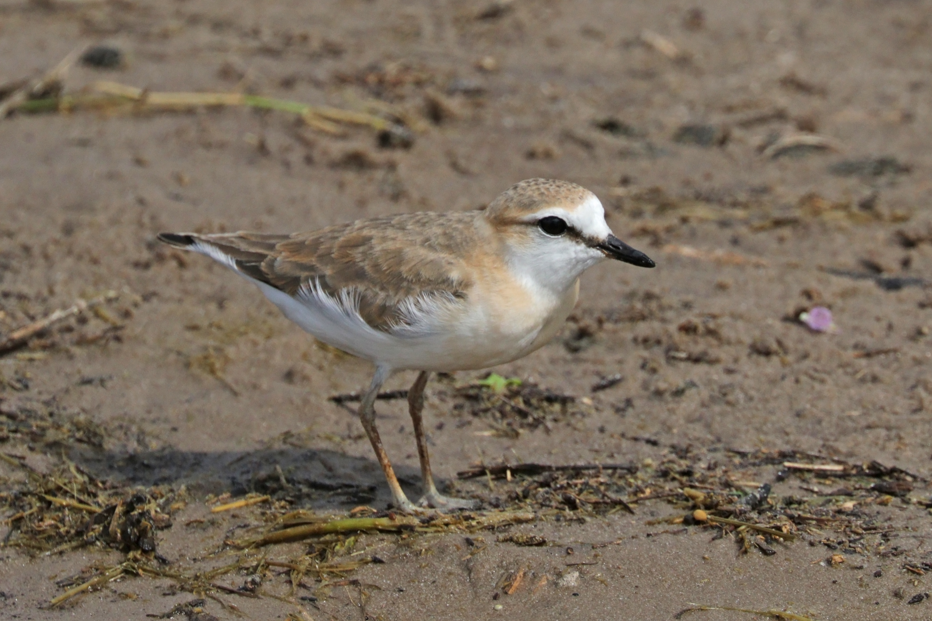 White-fronted plover (Charadrius marginatus) juvenile, Chobe National Park, Botswana